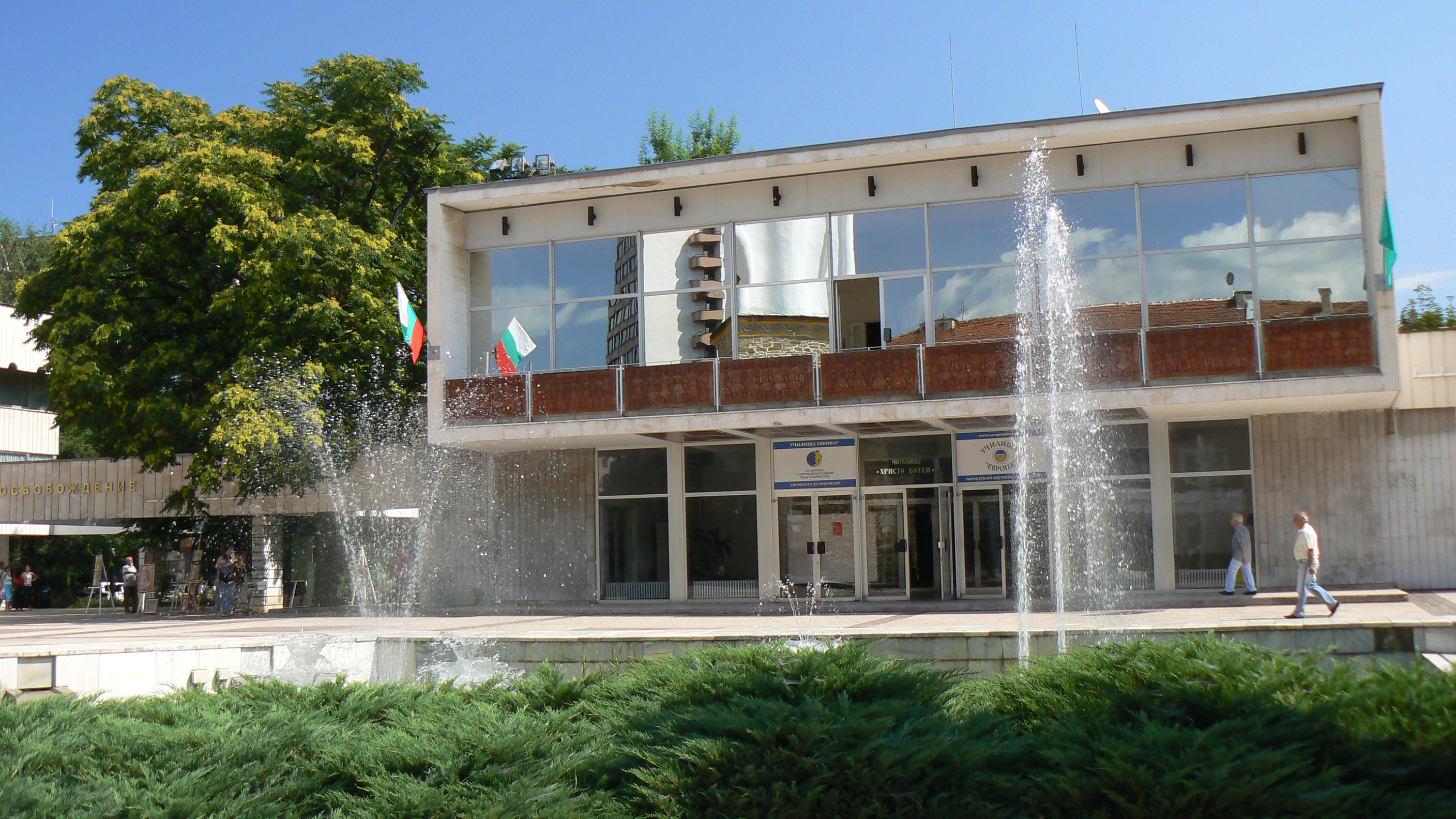 Culture house "Hristo Botev" in Botevgrad, Bulgaria